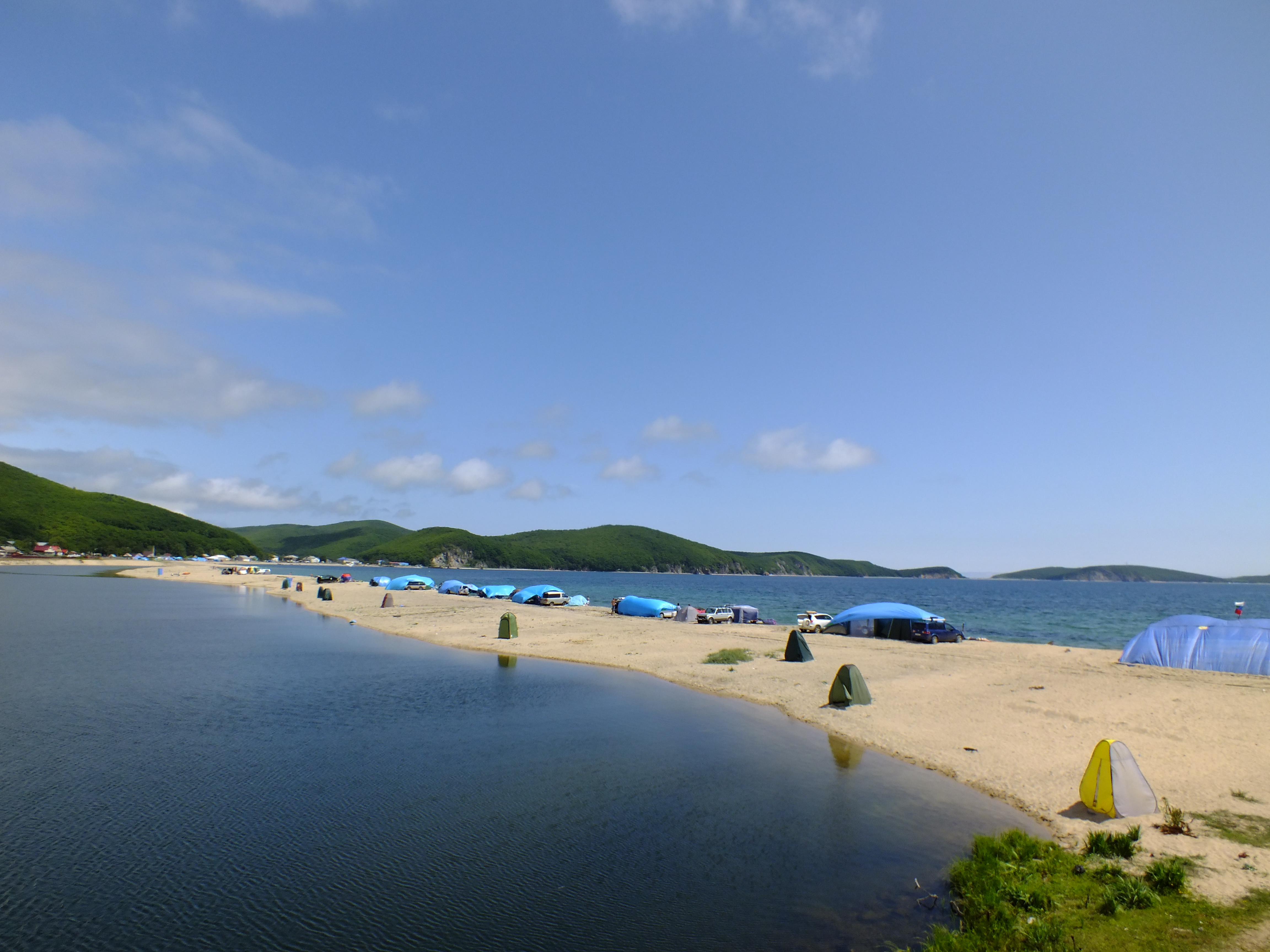 Vladimir Bay